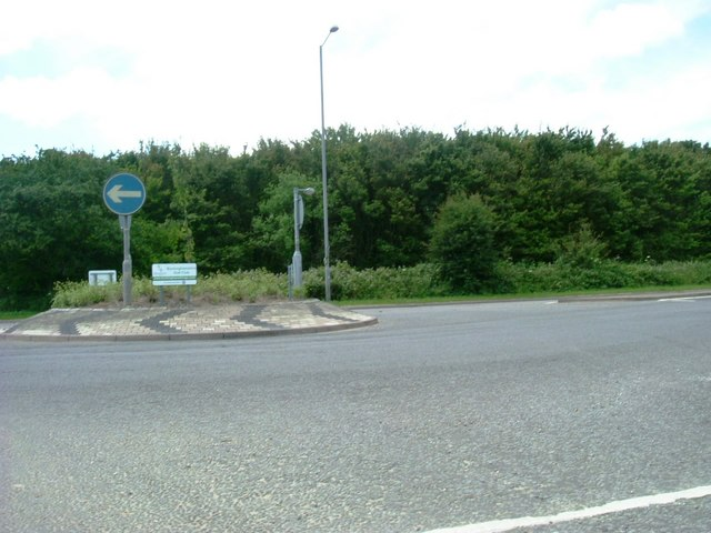 Denham Roundabout - A40 Denham Court Road - One of a series of roundabouts where the A40, A4020 and M40 meet. The roundabout is sponsored by the nearby Buckinghamshire Golf Club.